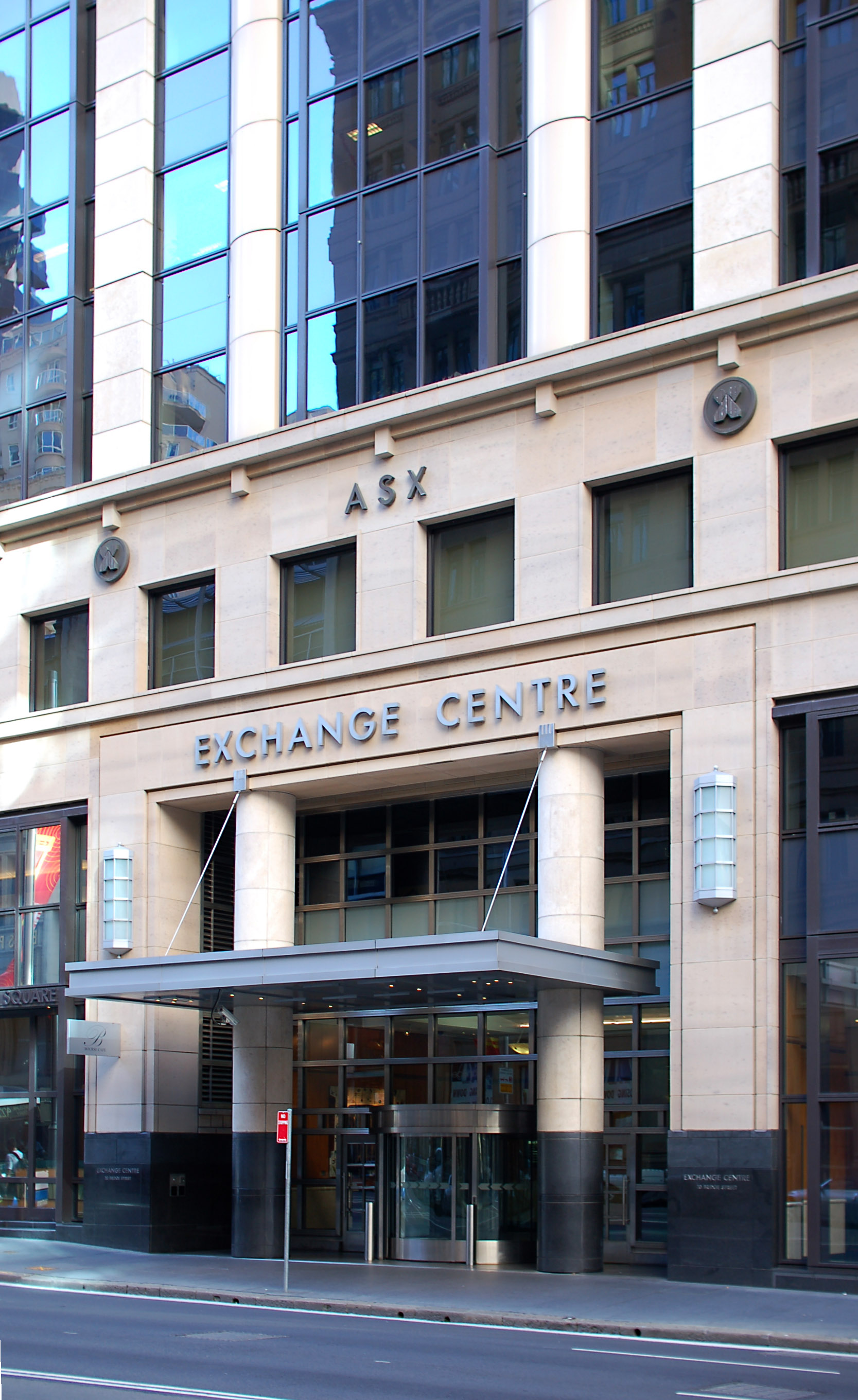 Sydney Exchange Centre Entrance